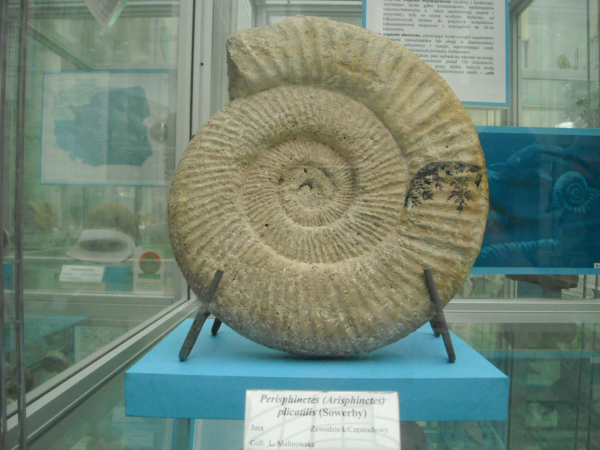 Fossil of Perisphinctes plicatilis - a perisphinctid ammonite. This specimen comes from the Jurassic of Poland.